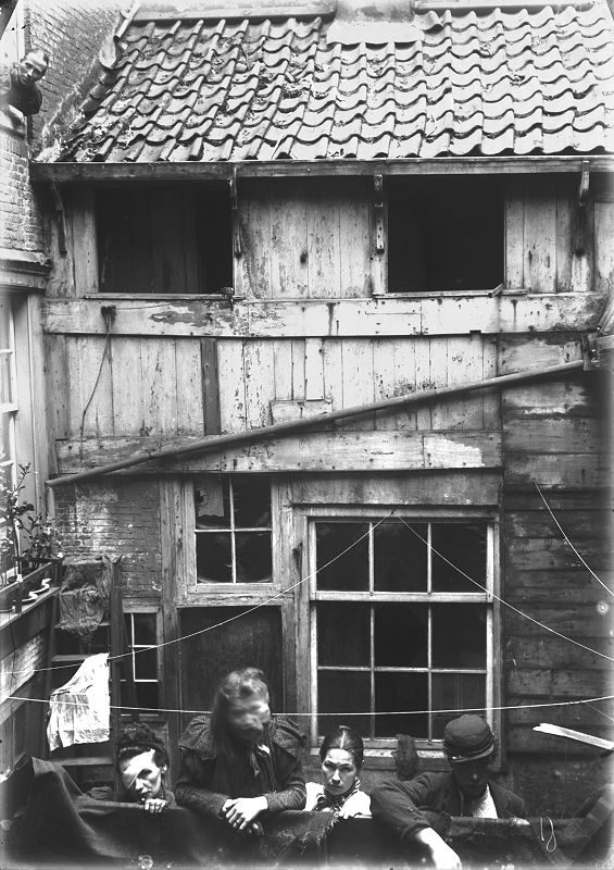 Slums in the Foeliedwarstraat in Amsterdam, Netherlands, ca. 1900